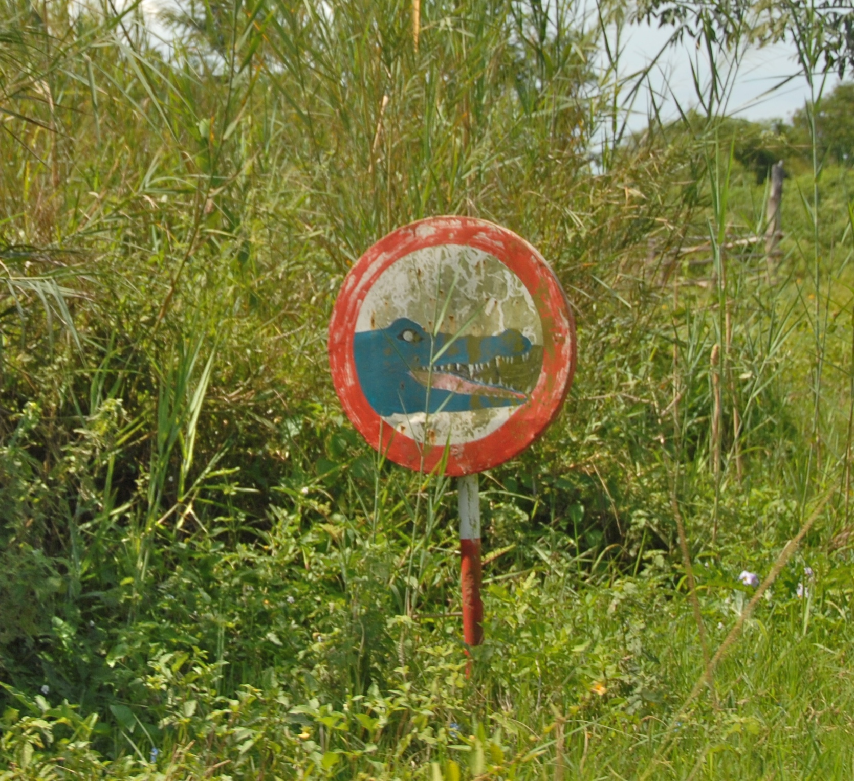 Rusizi National Park, in search of Gustave the killer croc